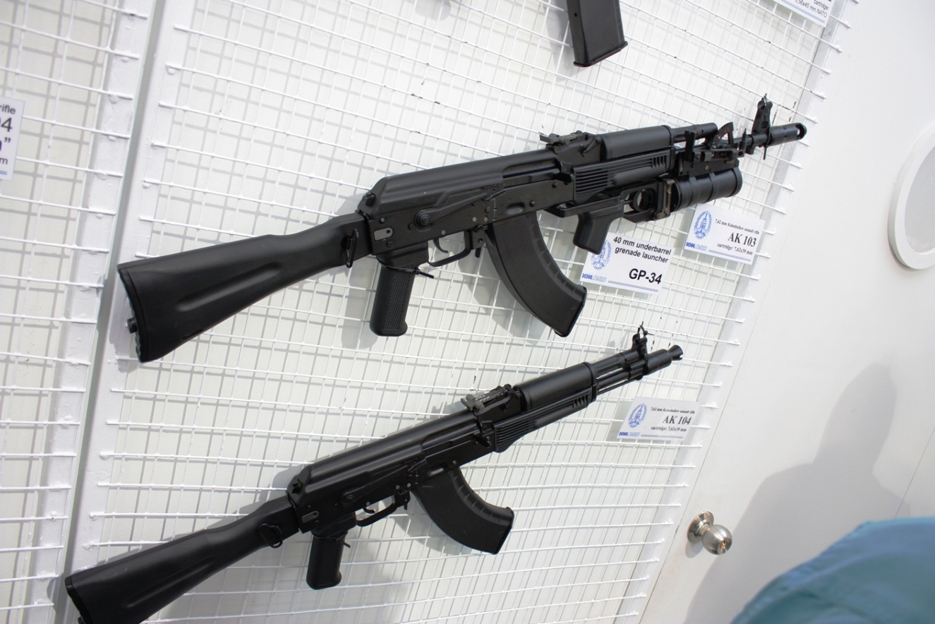 AK-103 and AK-104 rifles